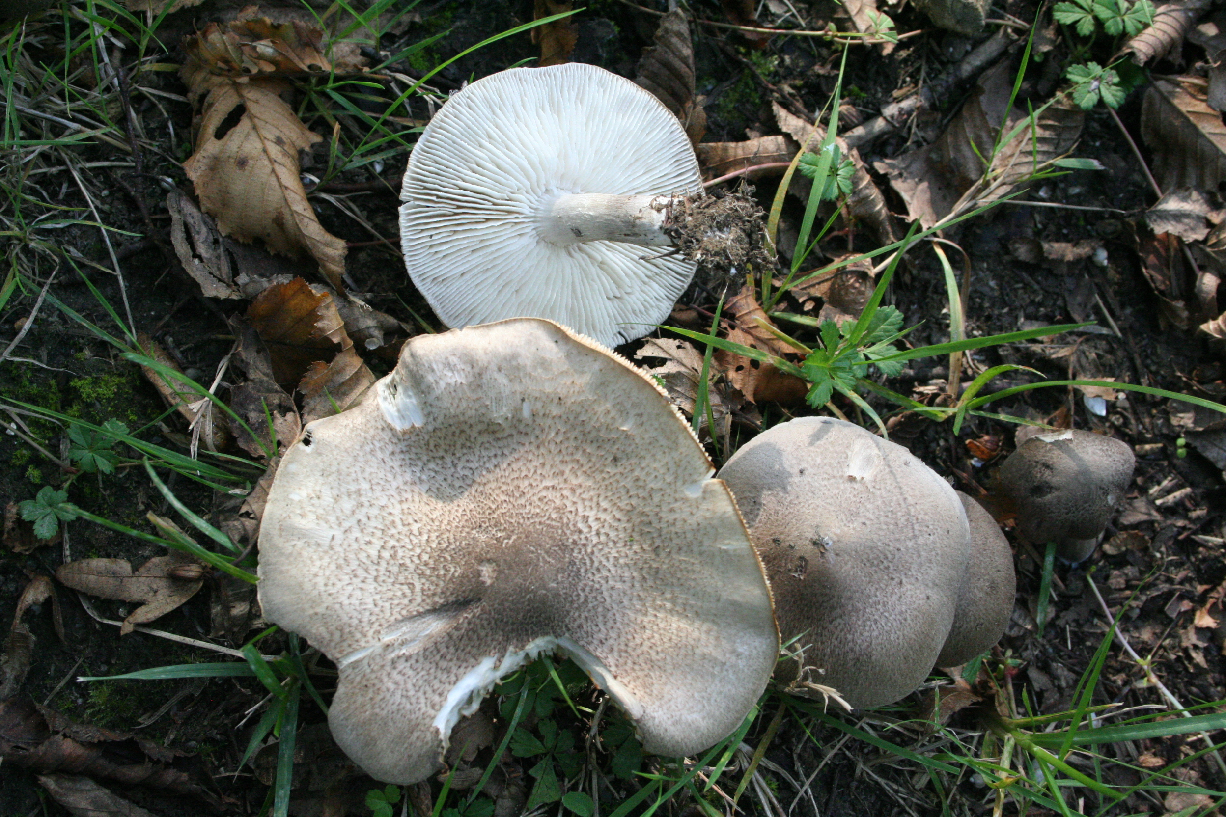 Tricholoma scalpuratum in a park near Paris, France.